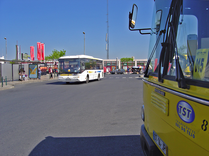 Cacilhas (Almada, Portugal) - TST buses.